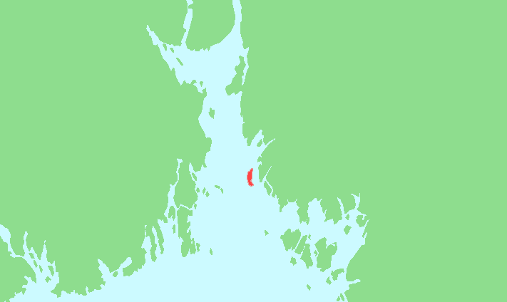 Locator map of Rauer, Østfold, Norway